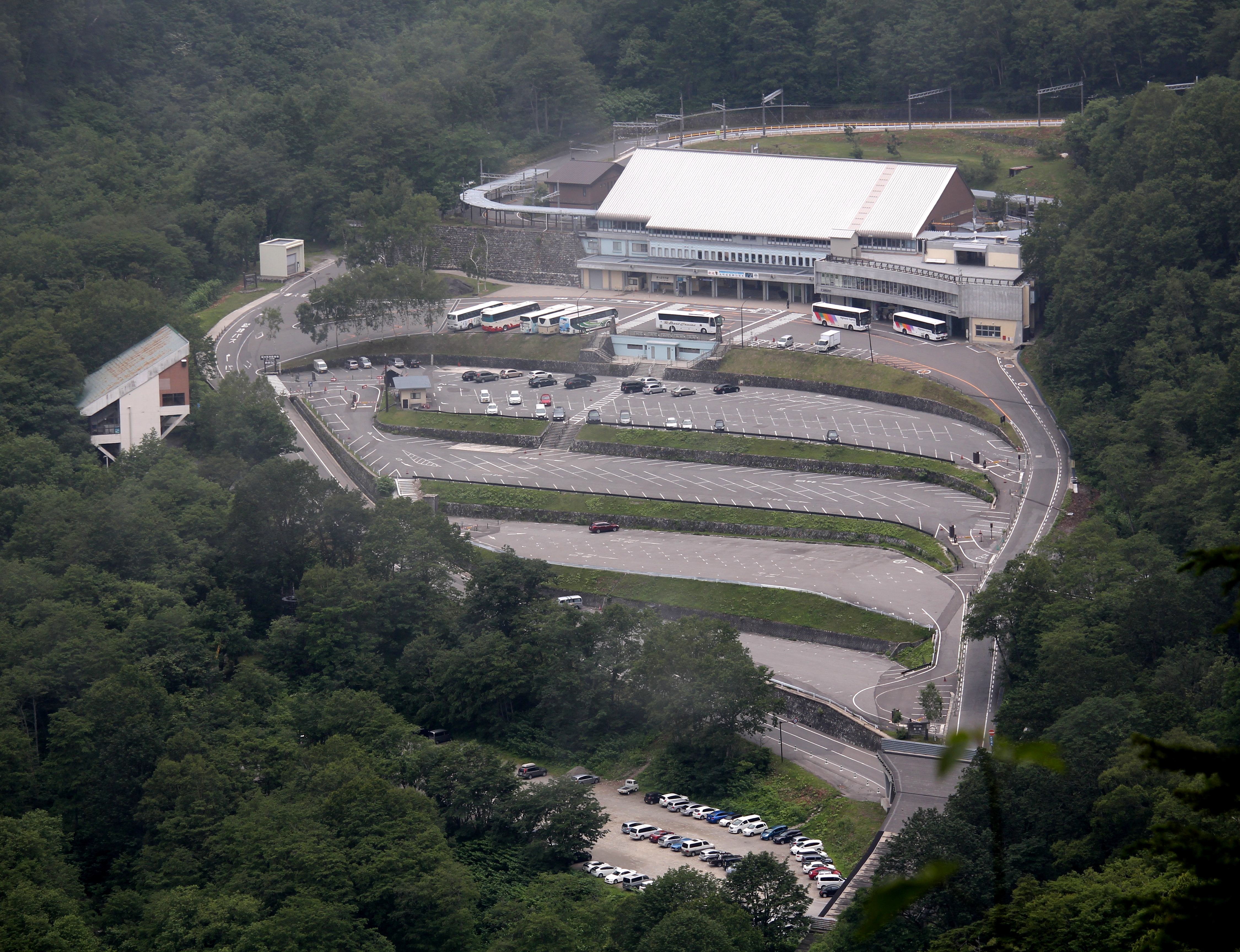 Ogizawa Station seen from Mount Jii, in Ōmachi, Nagano prefecture, Japan.